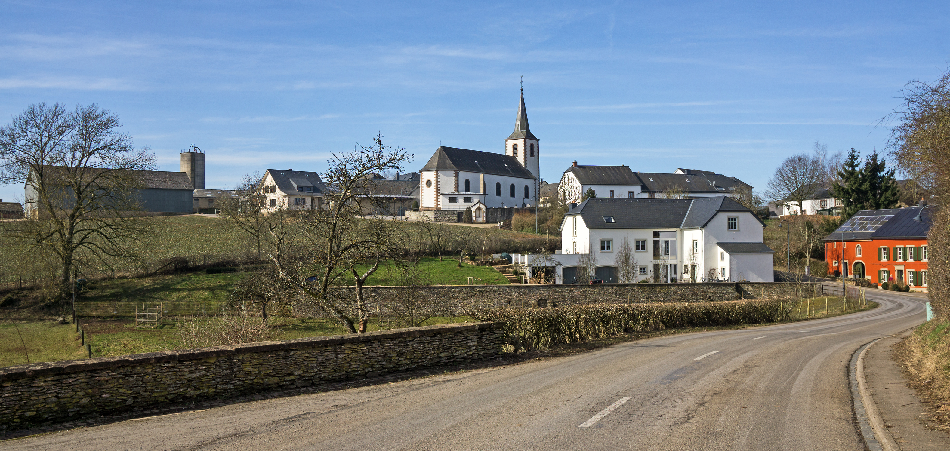 Rue Kinnikshaff in Wahl